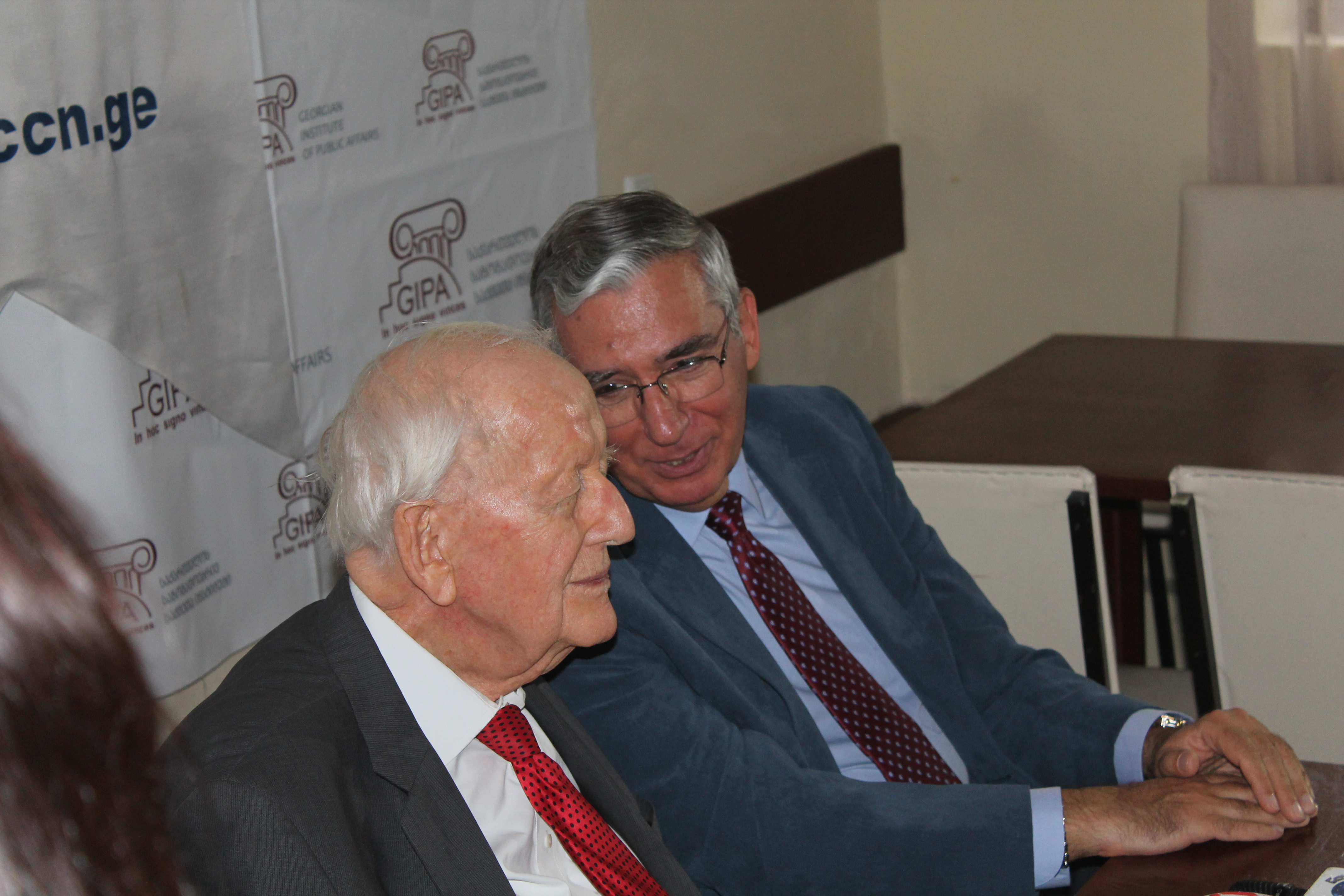 Георгий Хуцишвили